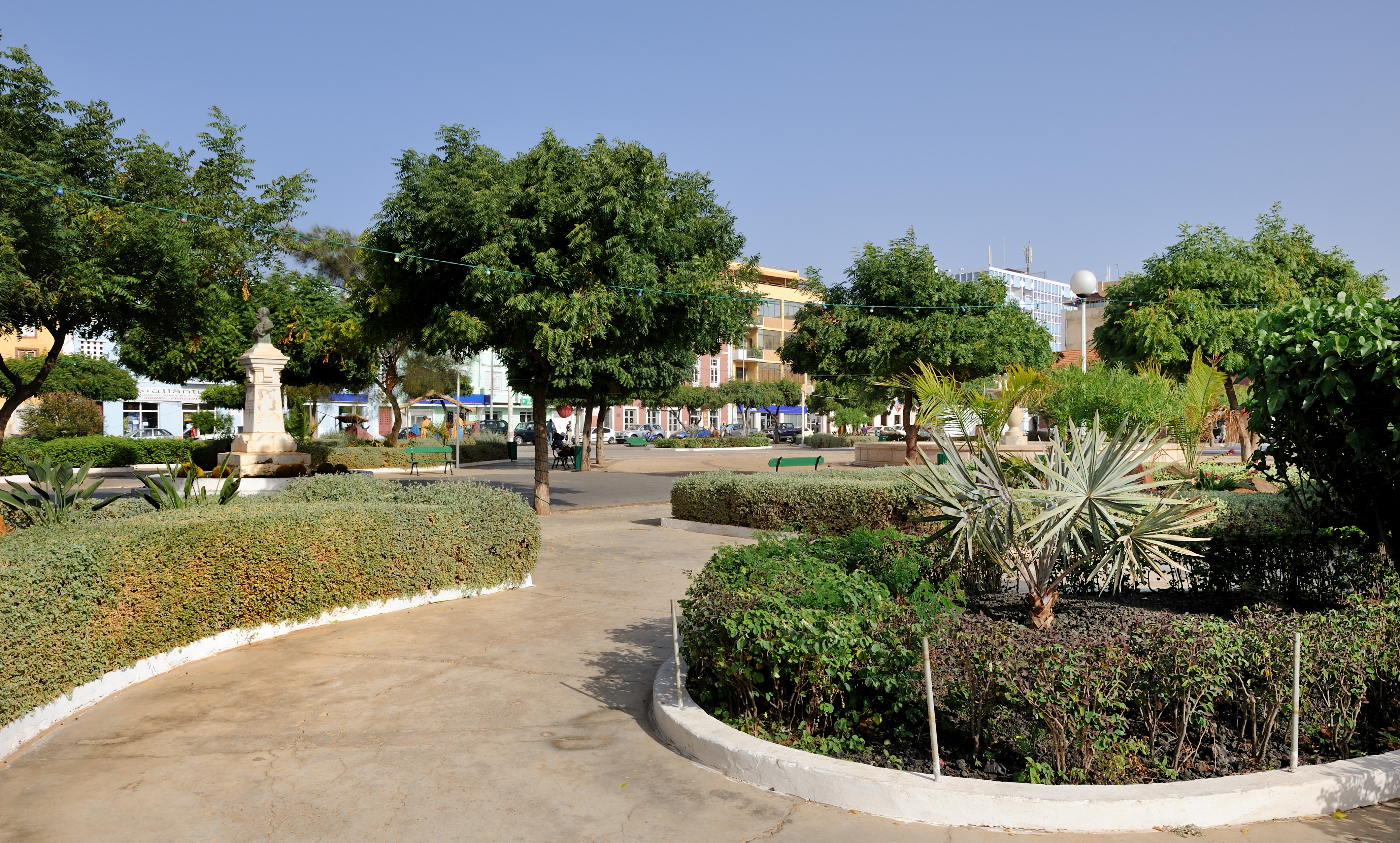 Square Alexandre Albuquerque in Praia, the capital of Cape Verde on the isle of Santiago.